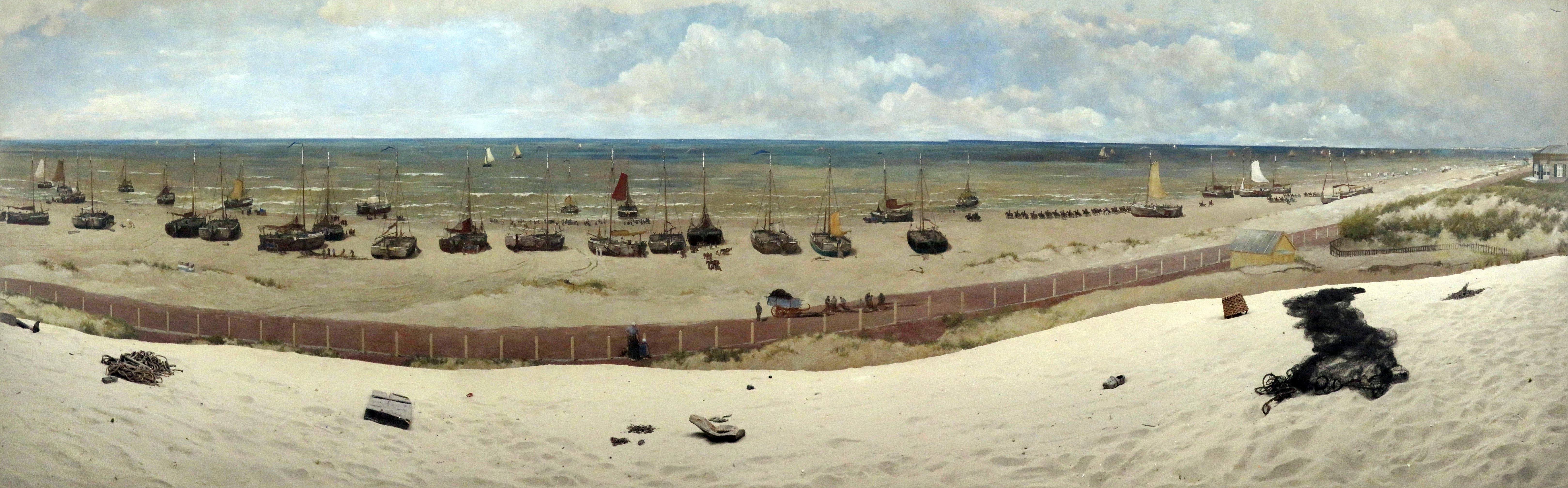 Panorama Mesdag